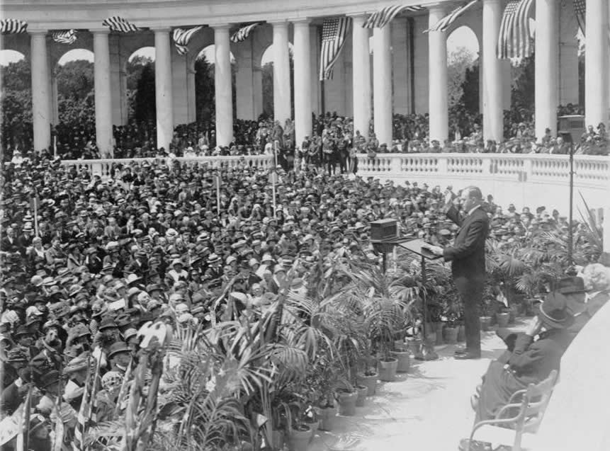 Coolidge public address. U. S. President Coolidge addressing crowd at Arlington National Cemetery, 1924